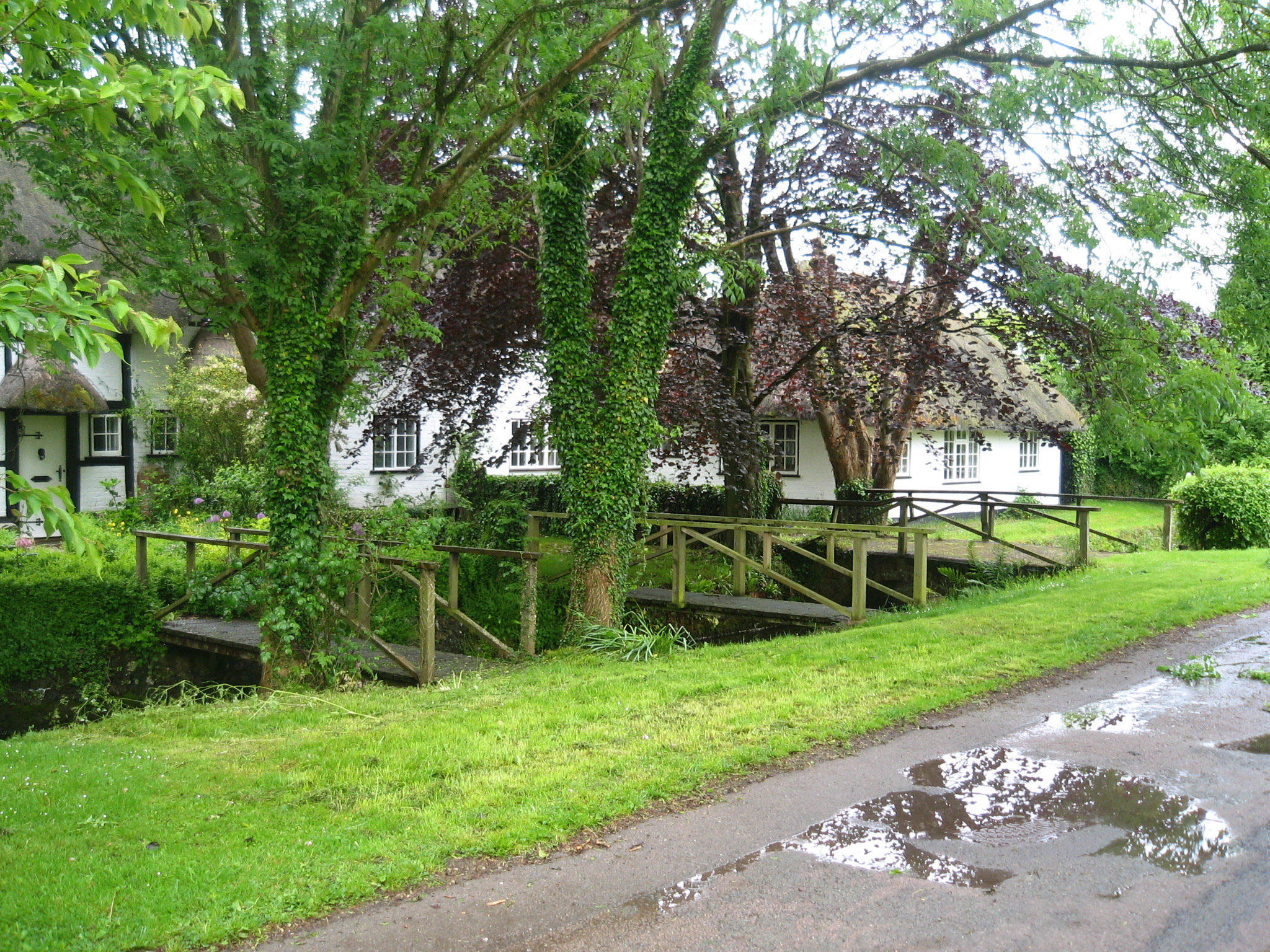 Bridges over the River Lambourn, East Garston, Berkshire